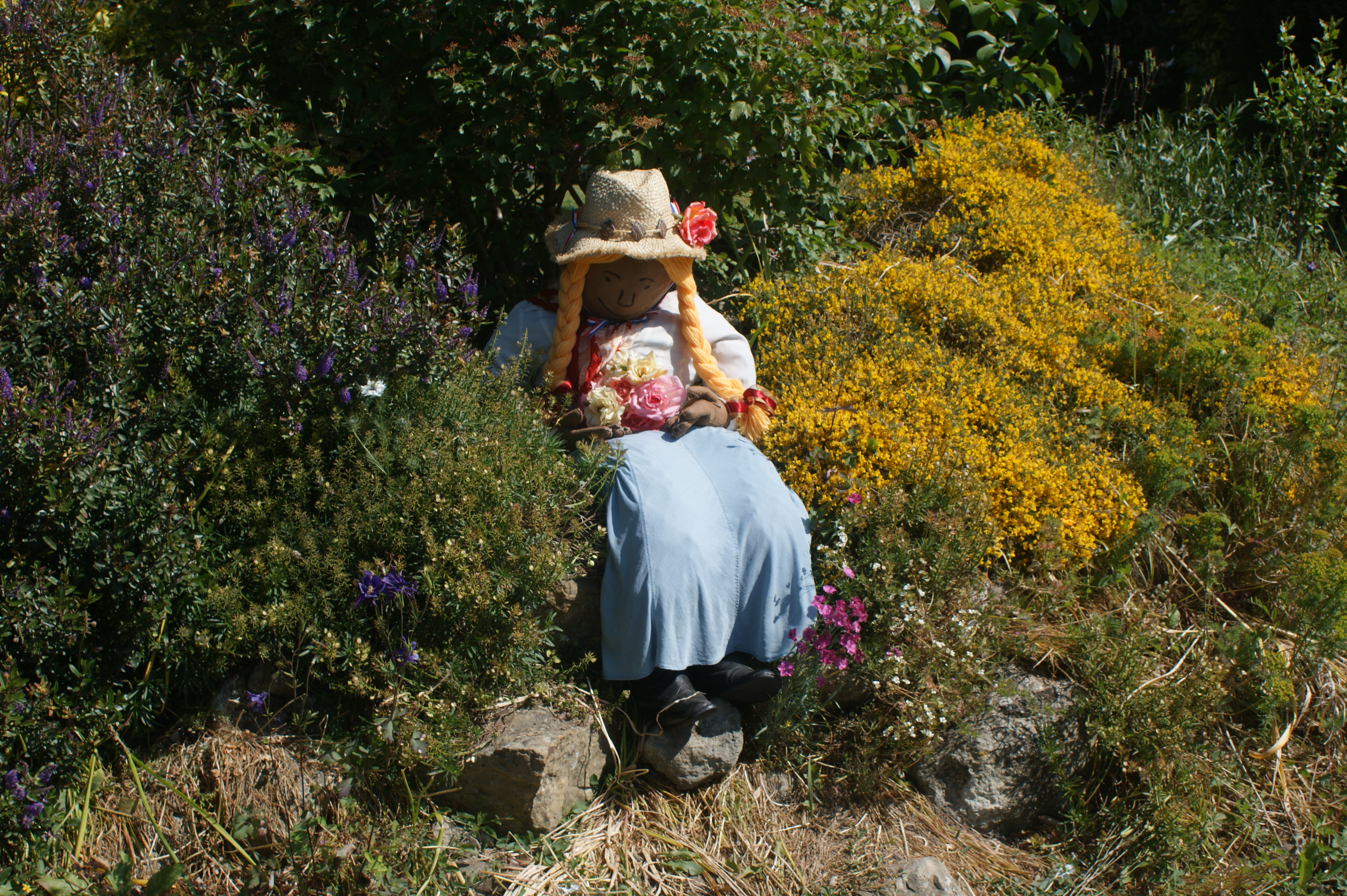 A homemade scarecrow, seen outside a house in Chillerton for the Chillerton & Gatcombe Scarecrow Festival 2011, on the Isle of Wight.